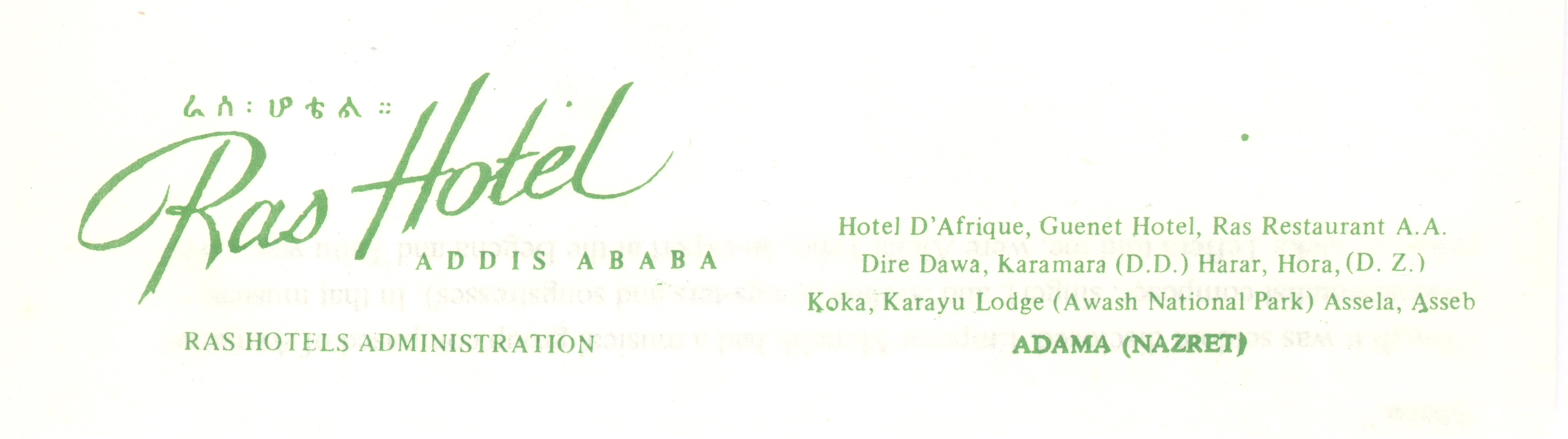 Ras Hotel's note paper, as used by Gibreab Teferi to write lyrics